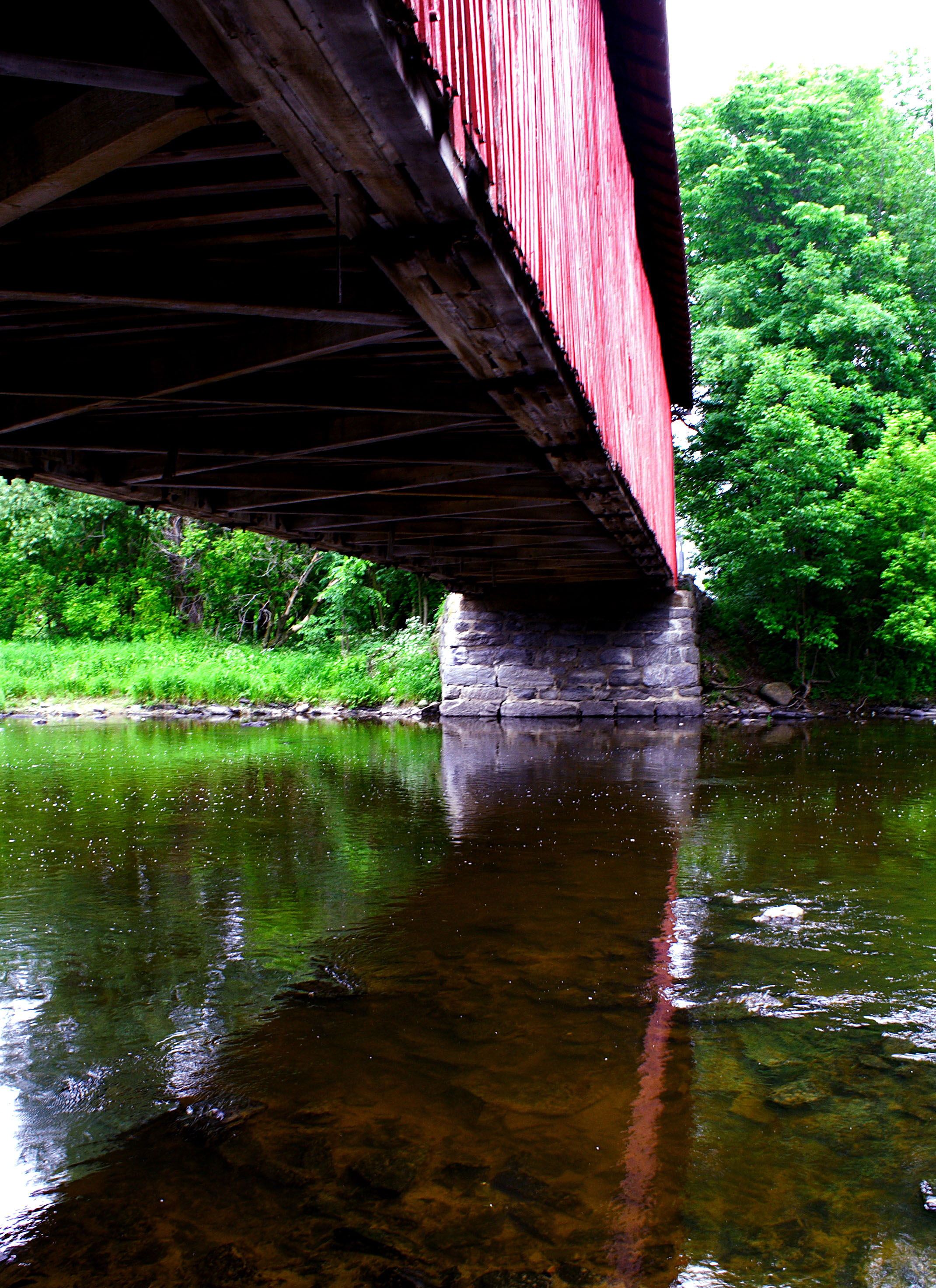 There are 110 covered bridges in Quebec, but like this one (Howe) there are only two. Culée du pont de Des Rivières